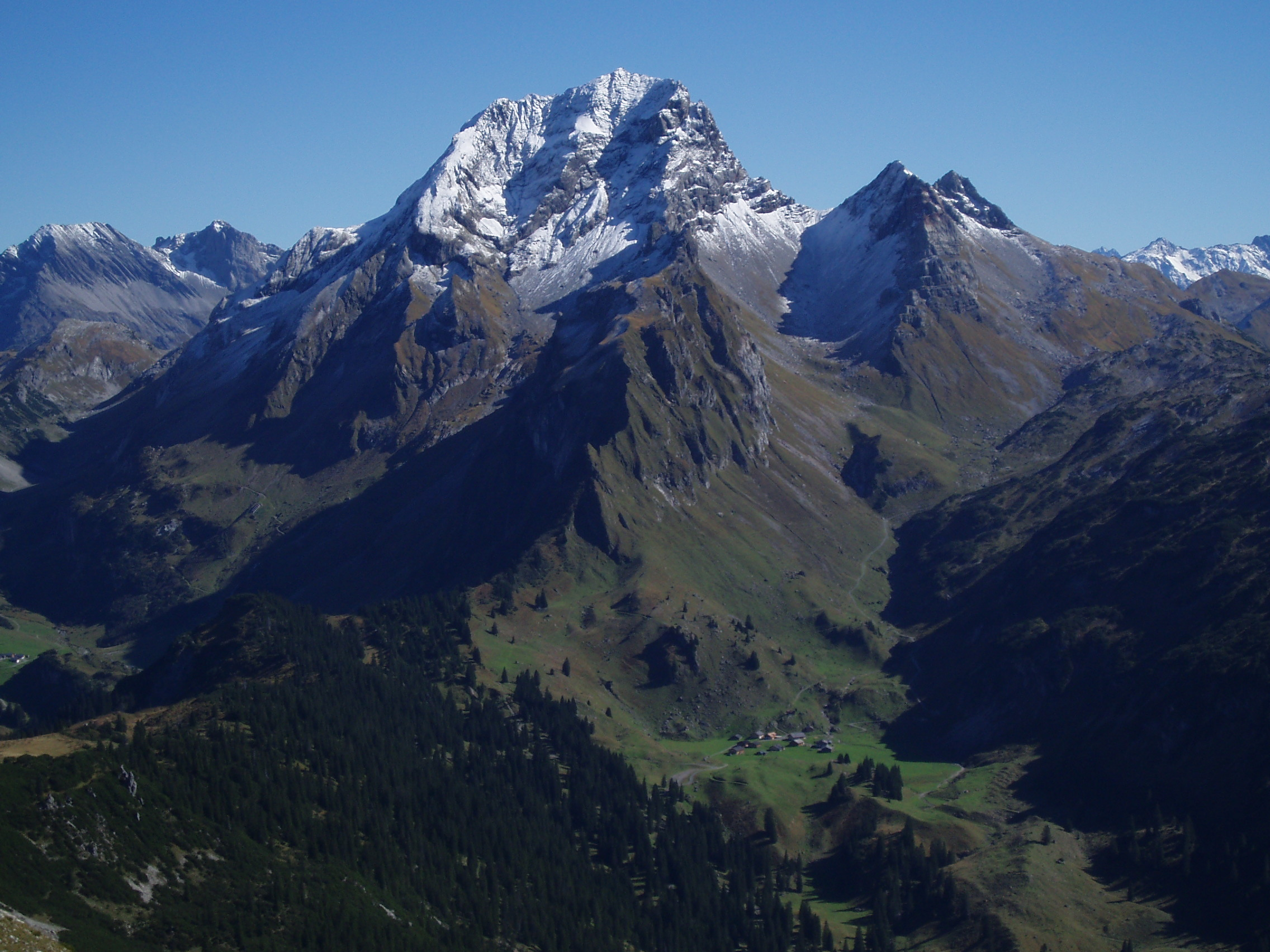 The mountain "Rote Wand" (2704 m) in Vorarlberg, Austria. View to the northwestern side. Picture taken on top of the "Breithorn" (2081 m).